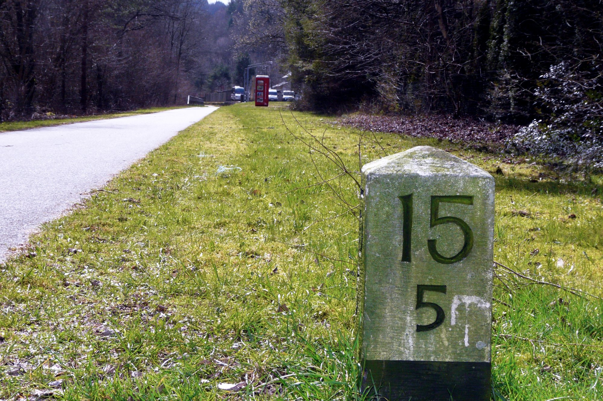 Die Trasse der ehemaligen Hochwaldbahn ist nun der Ruwer-Hochwald-Radweg. Kurz vor dem ehemaligen Bahnhof Pluwig befindet sich der Kilometerstein 15,5 der Hochwaldbahn. Blick in Fahrtrichtung Hermeskeil. Das Bahnhofsgebäude von Pluwig am Pluwiger Hammer befindet sich bei den im Bildhintergrund sichtbaren Fahrzeugen.